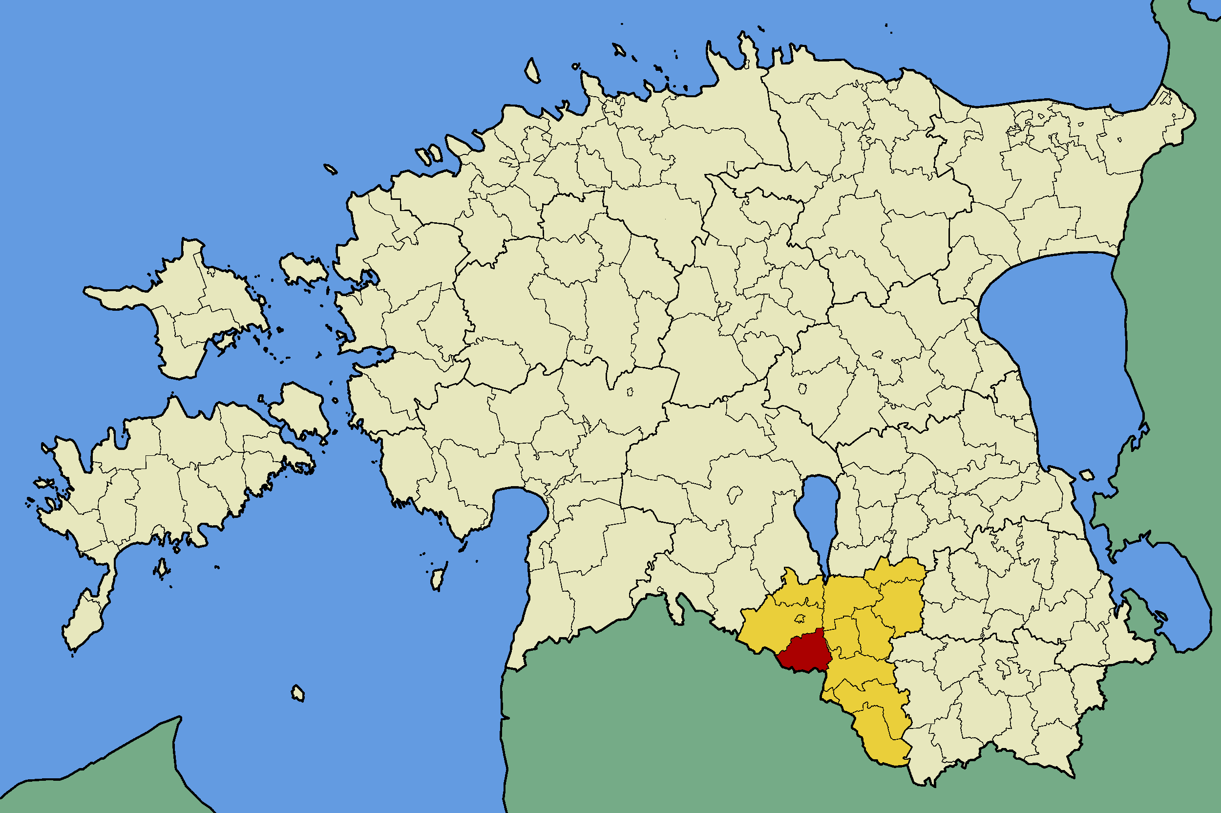 Map of Estonia with borders of municipalities (parishes). Valga county and Hummuli municipality emphasized.